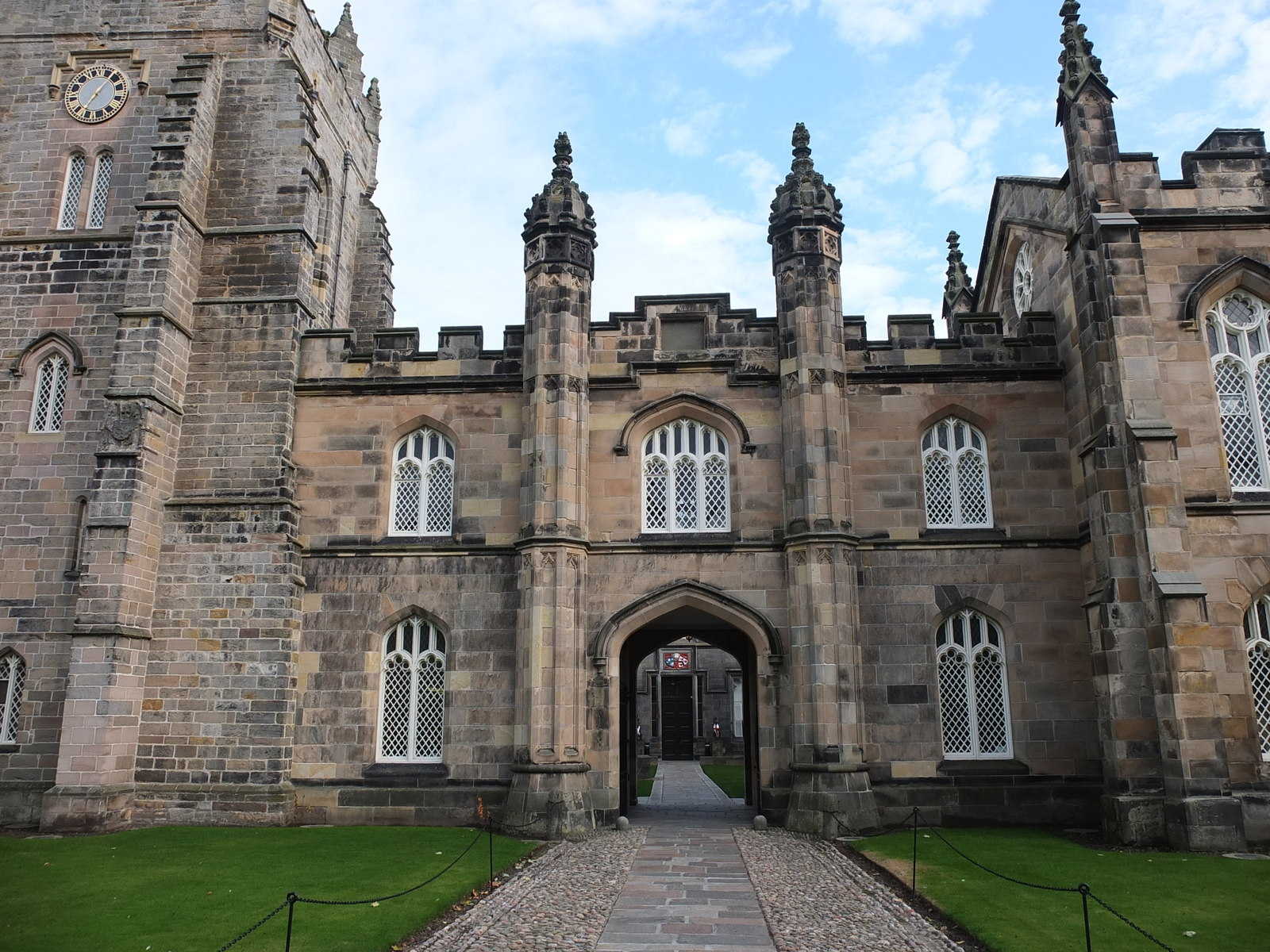 The archway to King's College quad, built by John Smith in 1825.